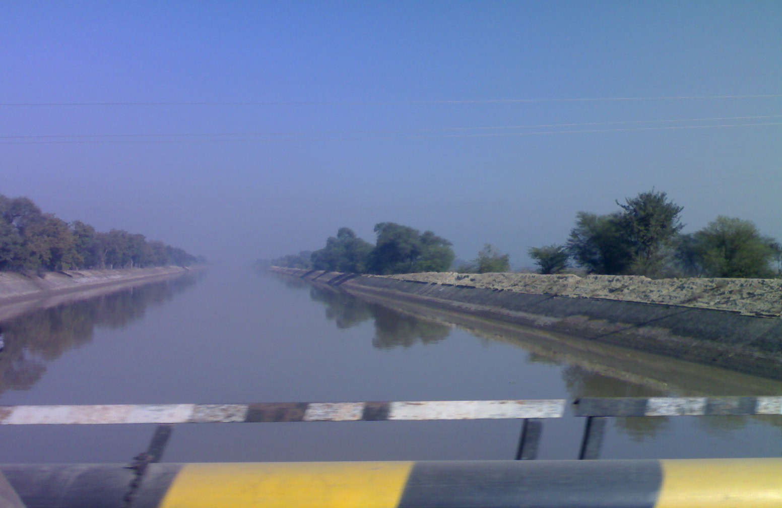 It is taken by me user:Shemaroo (Sivender Singh, ).In this image you can see Rajasthan canal in Punjab.This photo is taken on Giddarbaha-Malout road near village Fakarsar. Shemaroo (talk) 02:24, 23 January 2011 (UTC)